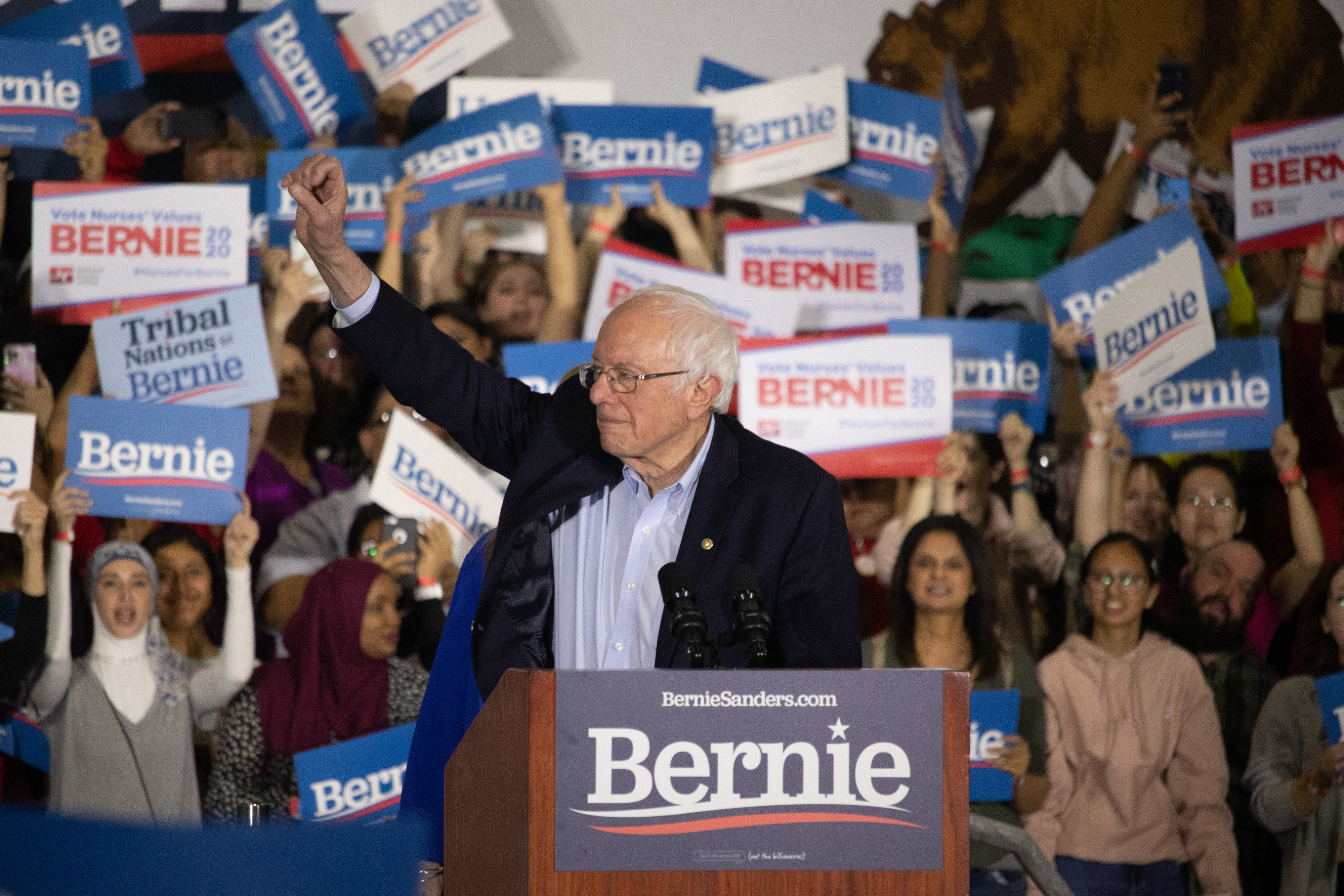 U.S. Senator Bernie Sanders speaking at a campaign rally on 1 March 2020.